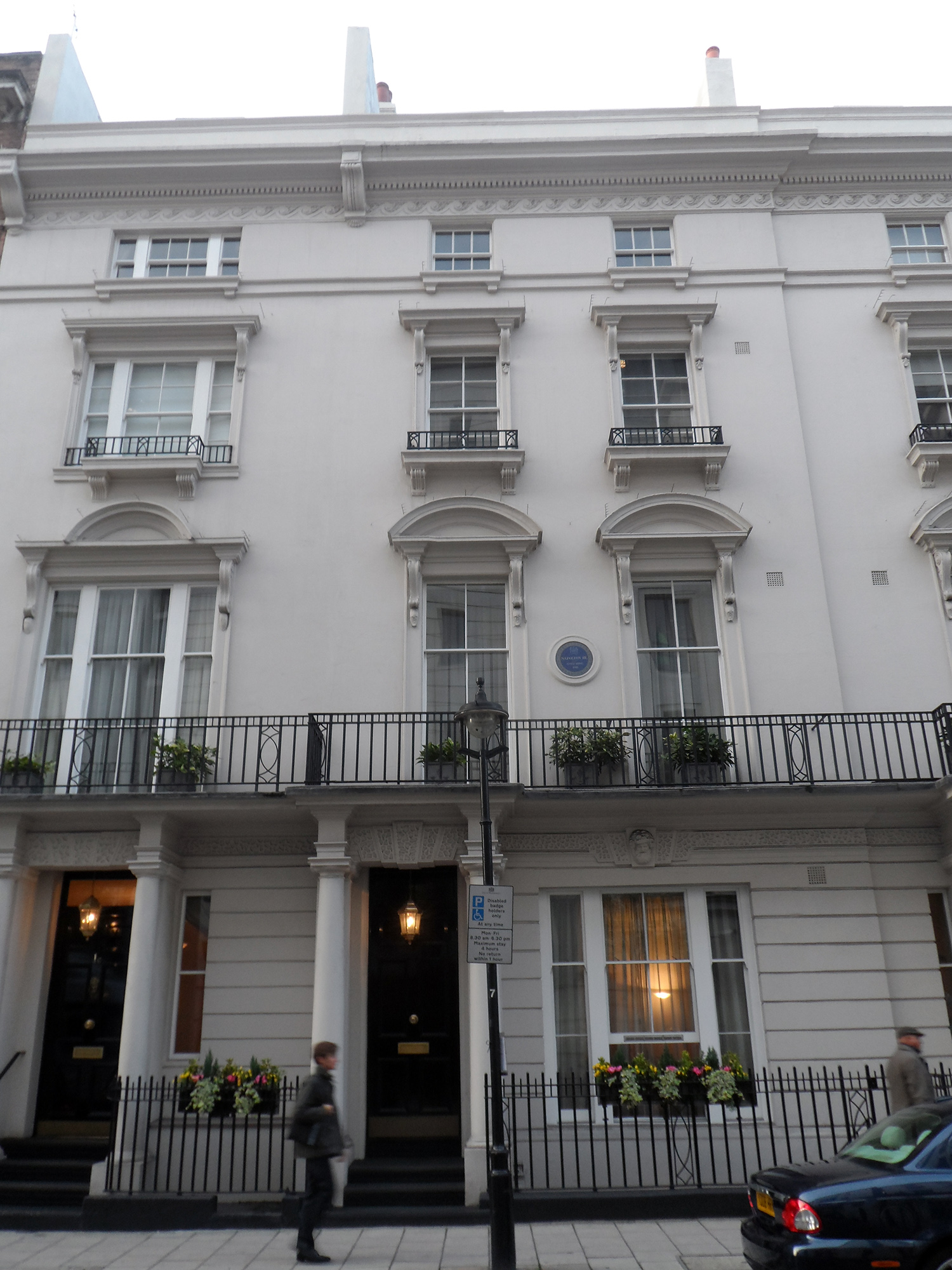 Napoleon III lived here 1848